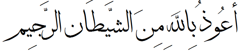 I seek refuge with Allah from the accursed Satan